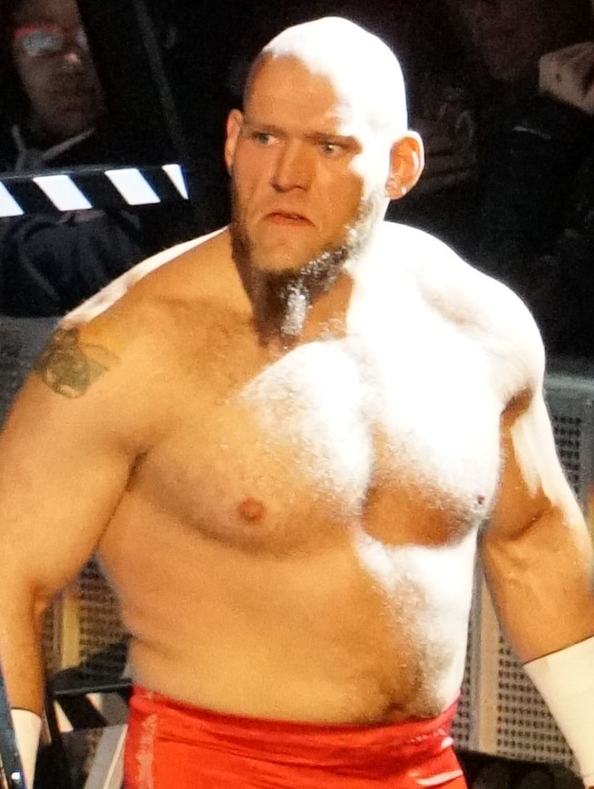 Lars Sullivan enters the arena at NXT TakeOver: New Orleans, April 2018.